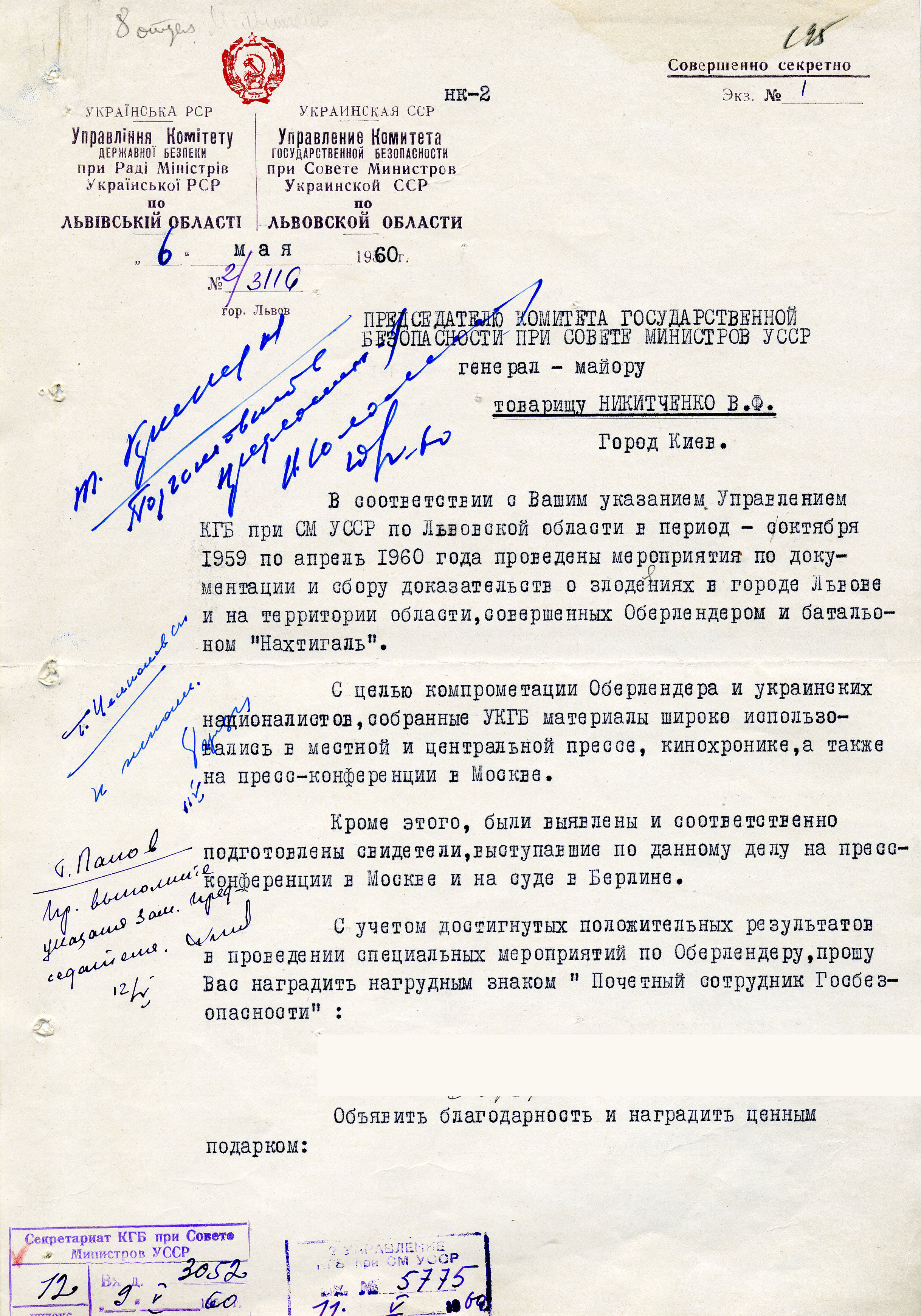 Declassified document of KGB special actions against Theodor Oberländer